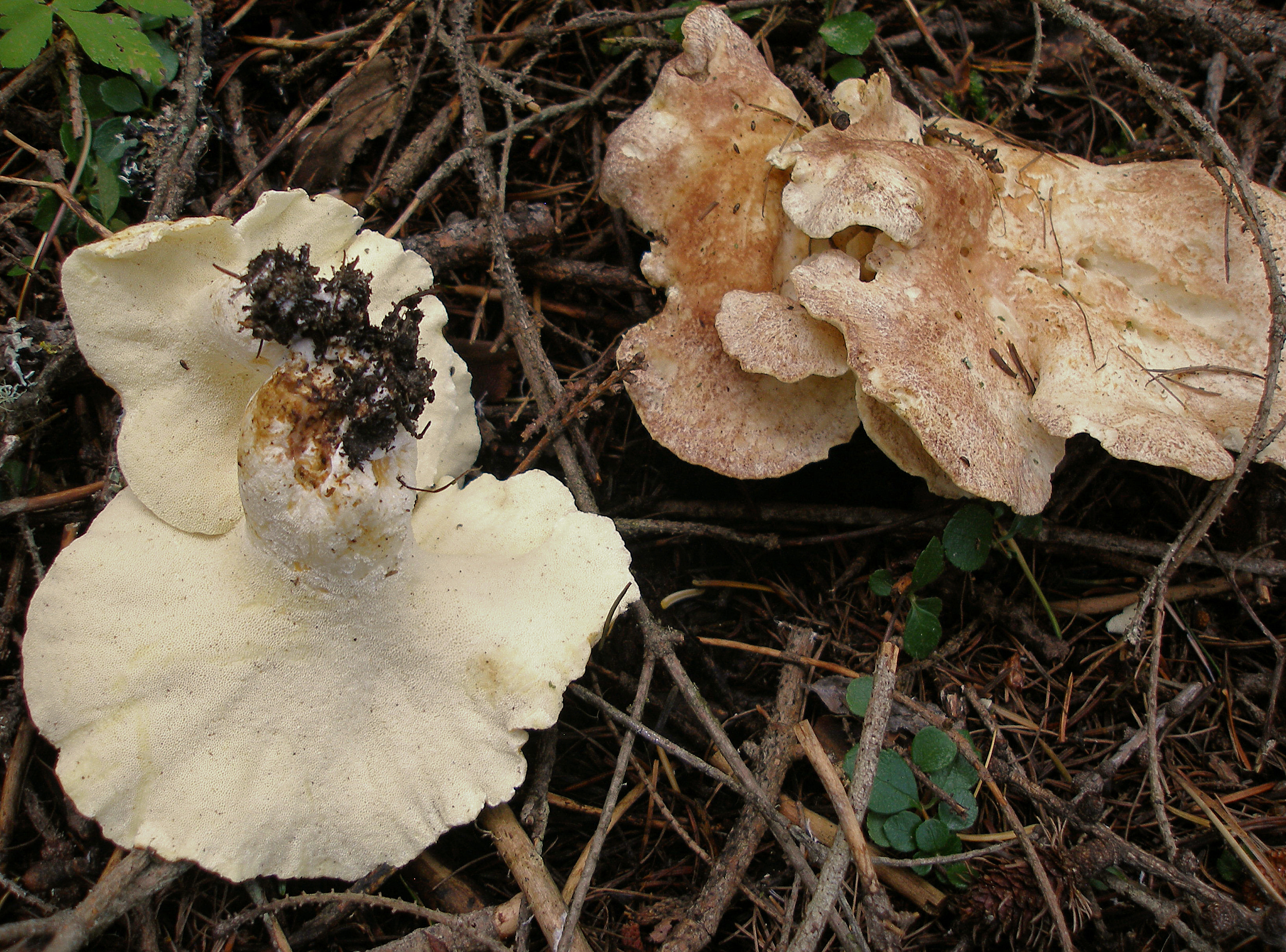 Albatrellus ovinus (Fr.) Kotl.& Pouz. Image location: Ravalli Co., Montana, USA Recognized by sight For more information about this, see the observation page at Mushroom Observer.